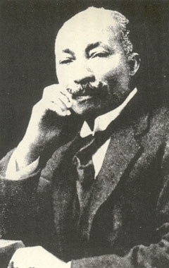 J. E. Casely Hayford, Ghanaian Writer.